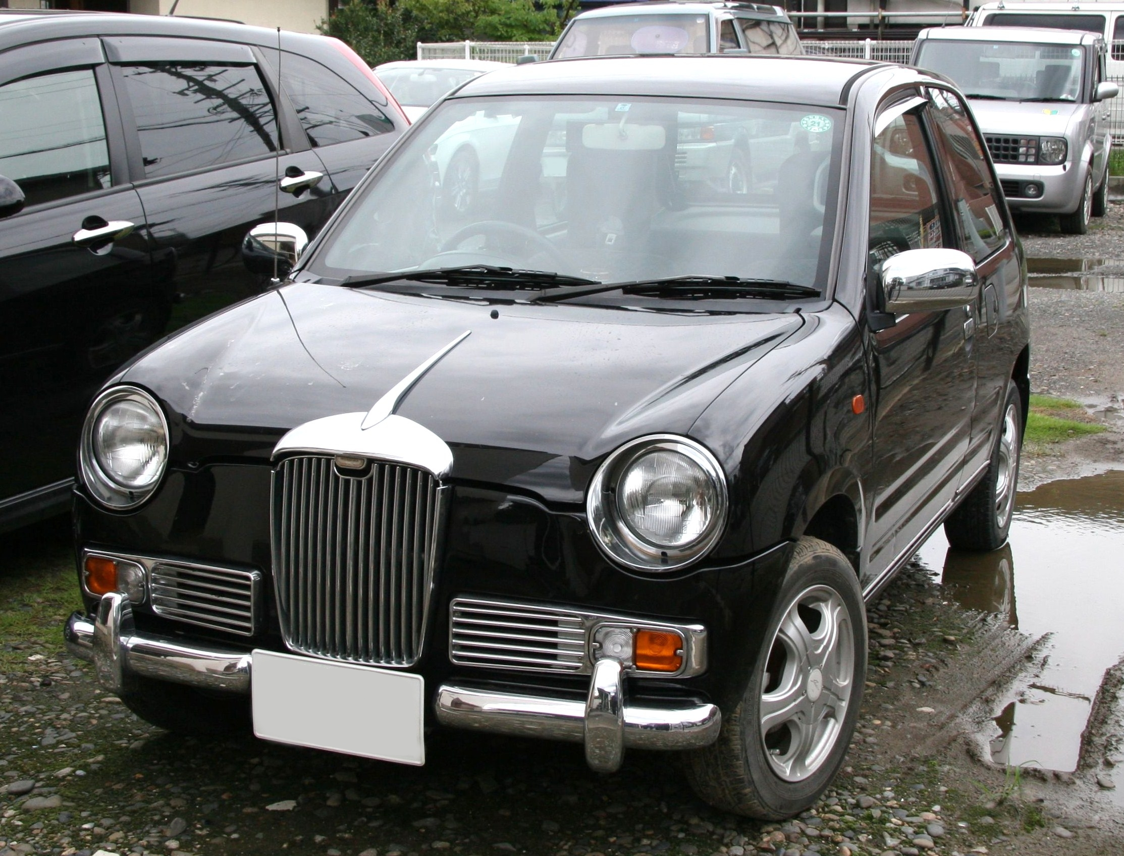 Mitsuoka Ray